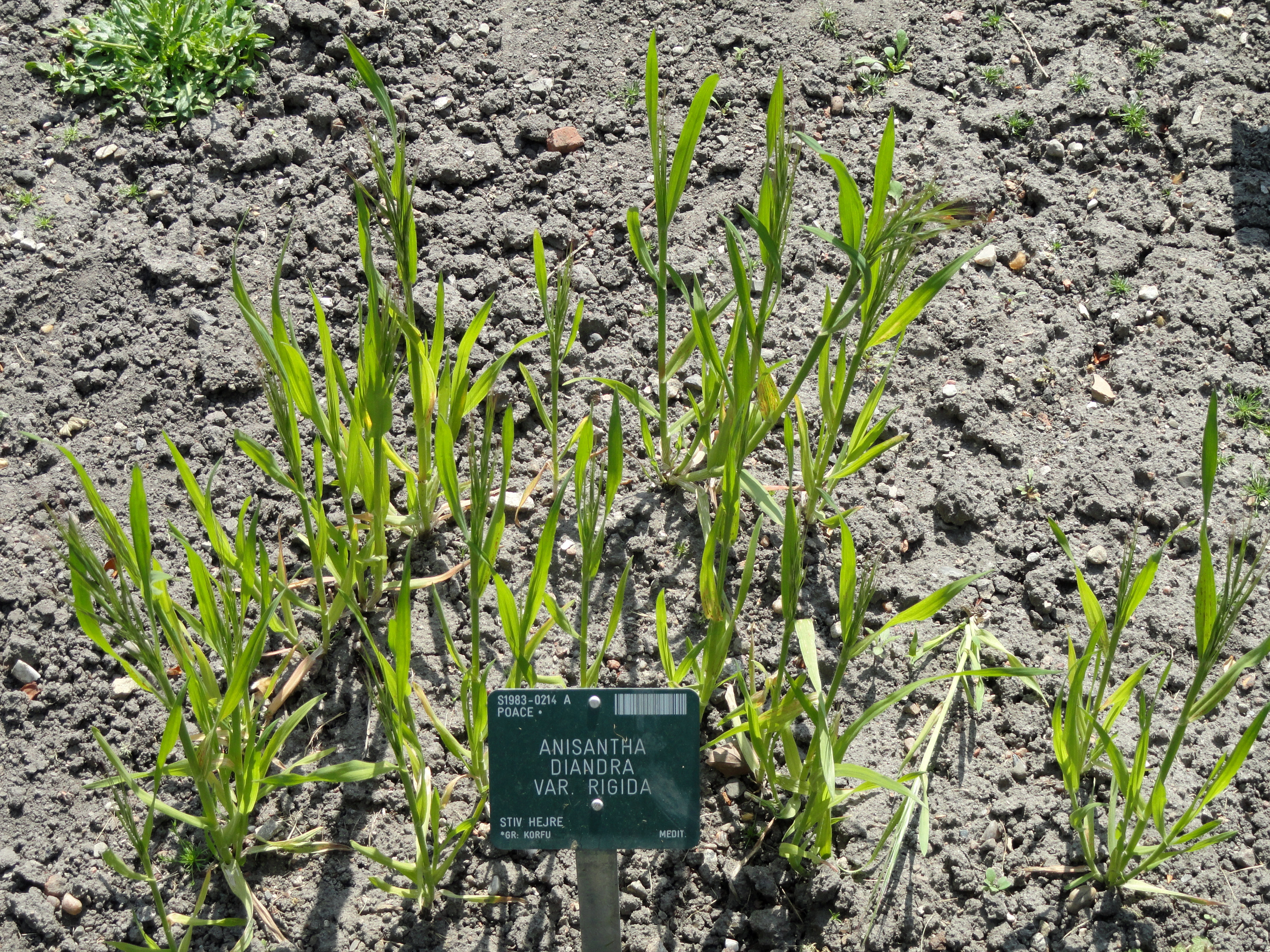 Botanical specimen in the University of Copenhagen Botanical Garden, Copenhagen, Denmark.